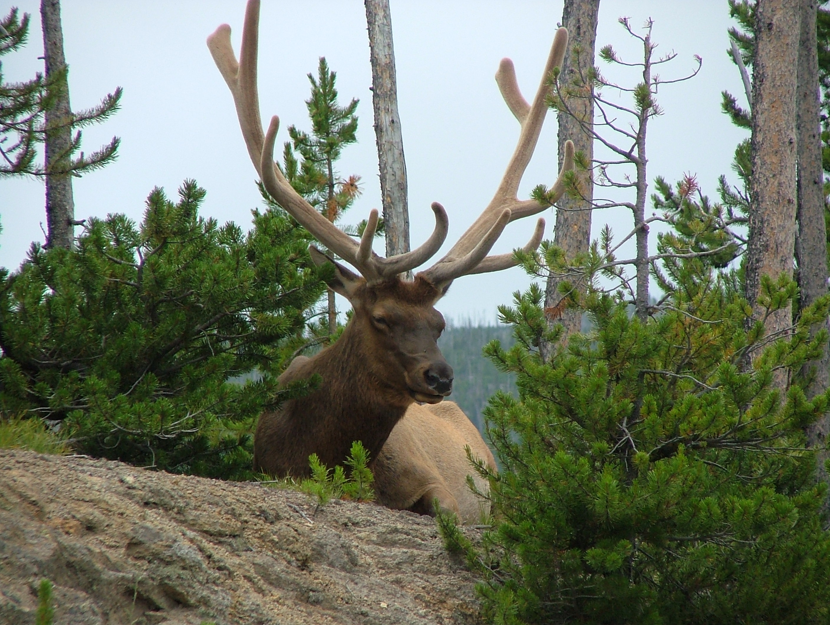 Male elk, resting near the road. Yellowstone National Park